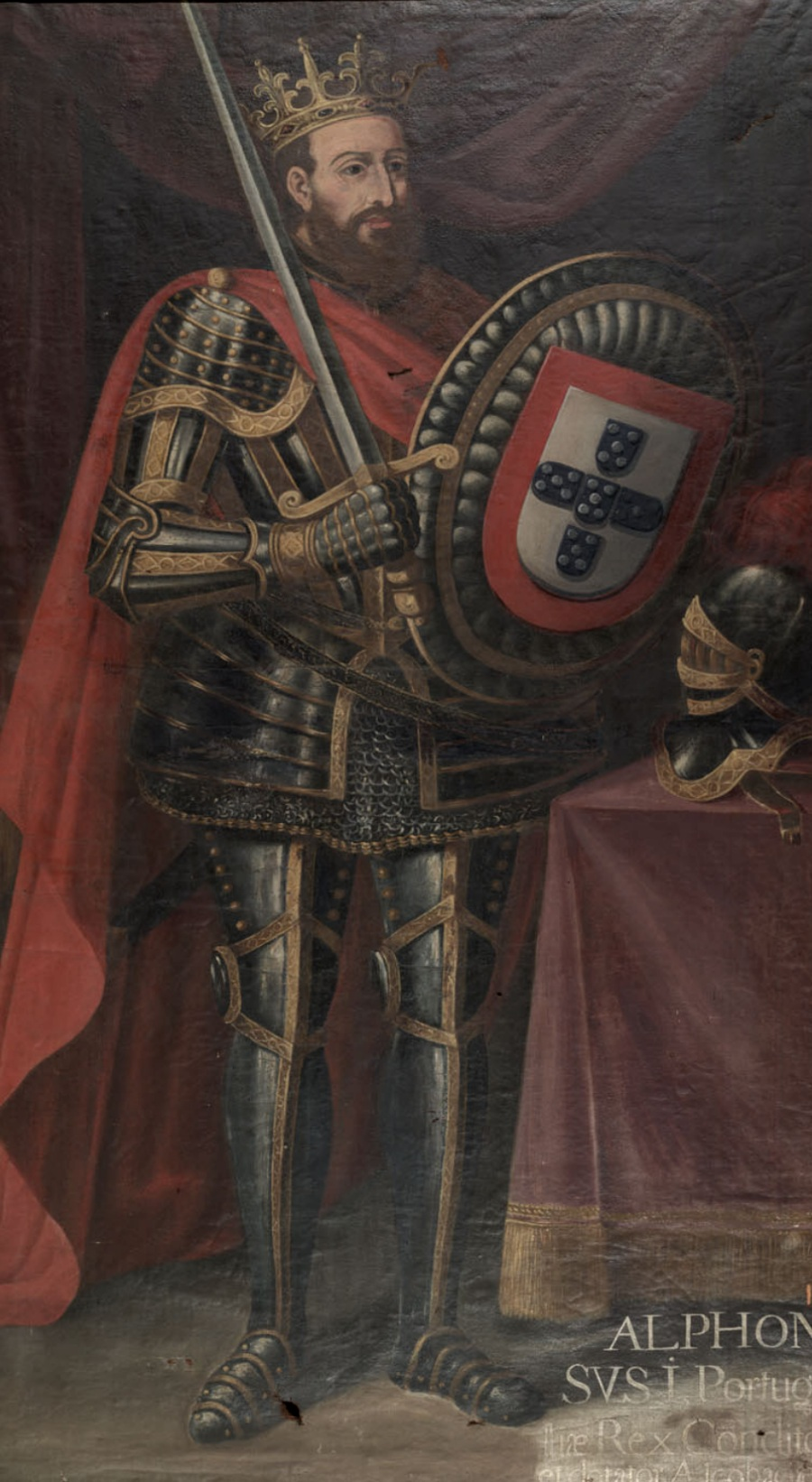 Afonso Henriques of Portugal (reigned 1139-1185)